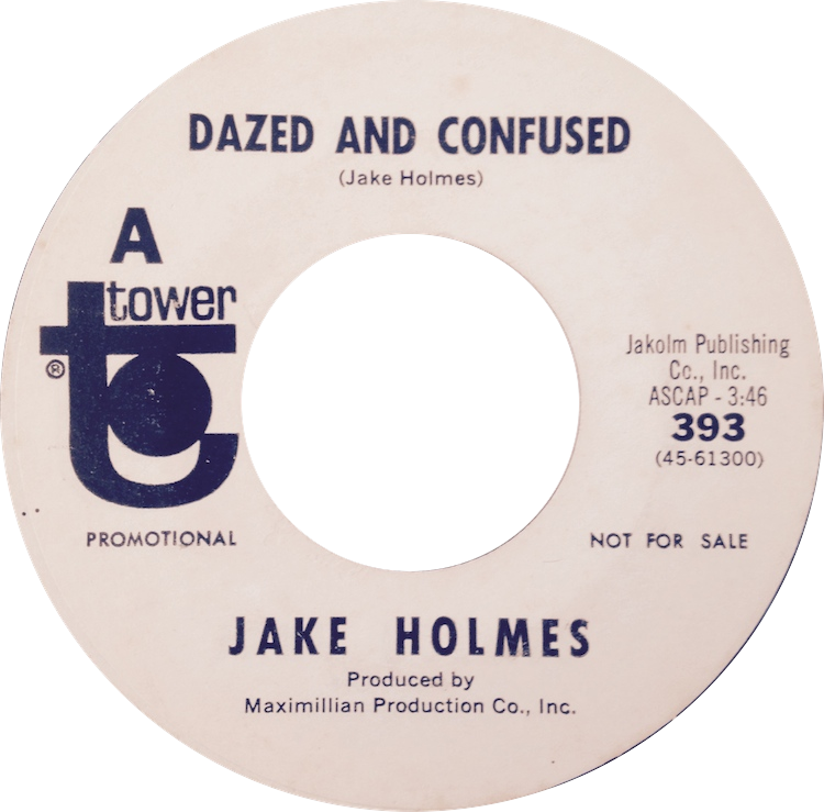 Side-A label of the US promo vinyl single "Dazed and Confused" by Jake Holmes, sung first before Led Zeppelin